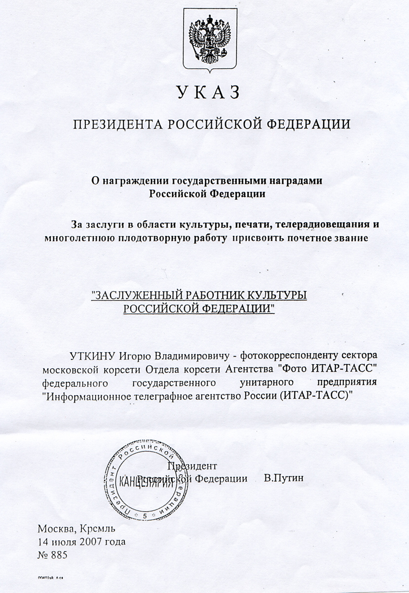 Presidential Decree on awarding a press-photographer ITAR-TASS Igor Utkin State Award "Honored Worker of Culture of the Russian Federation" (2007).